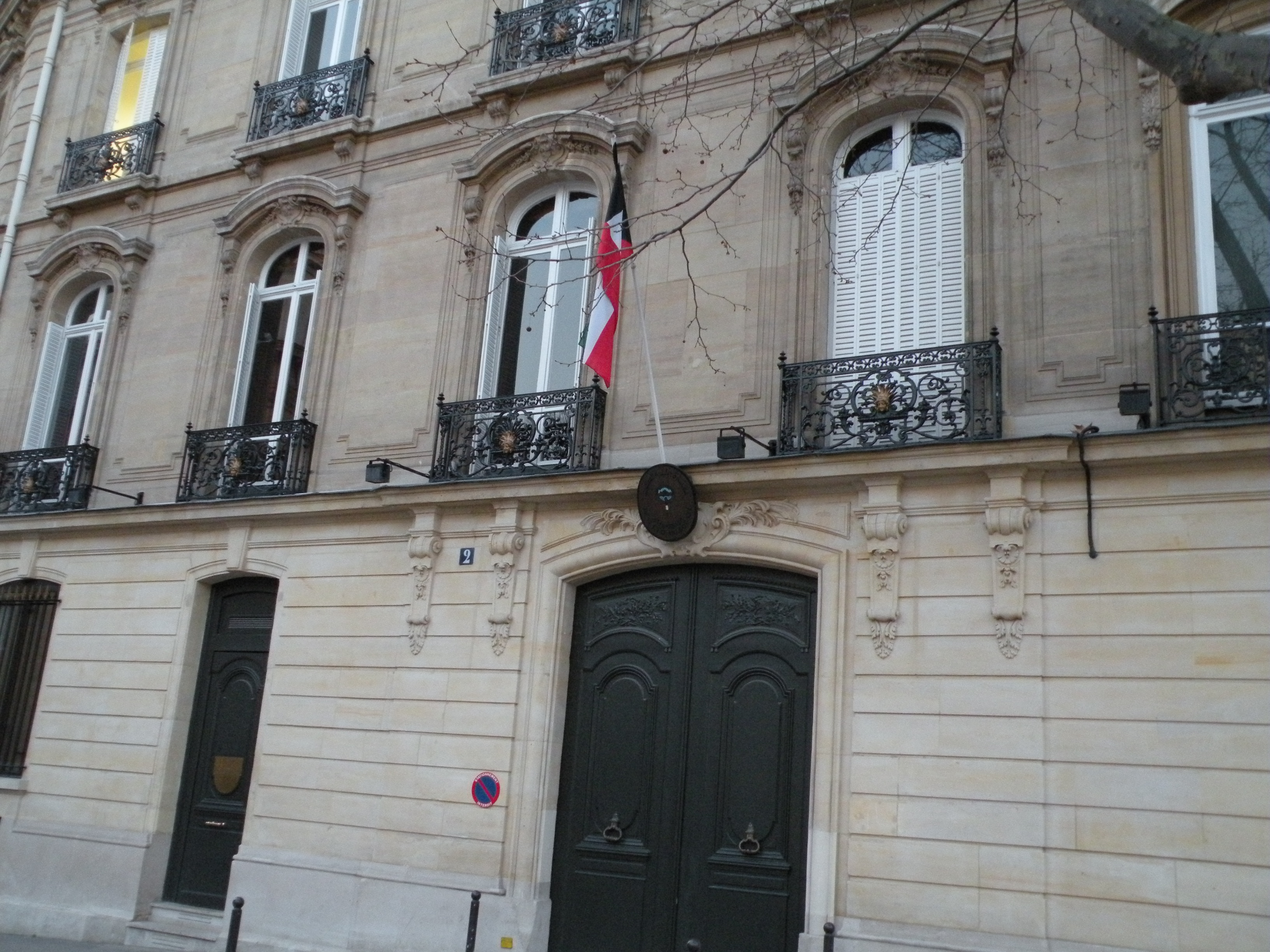 Kuwaiti embassy in France, Paris